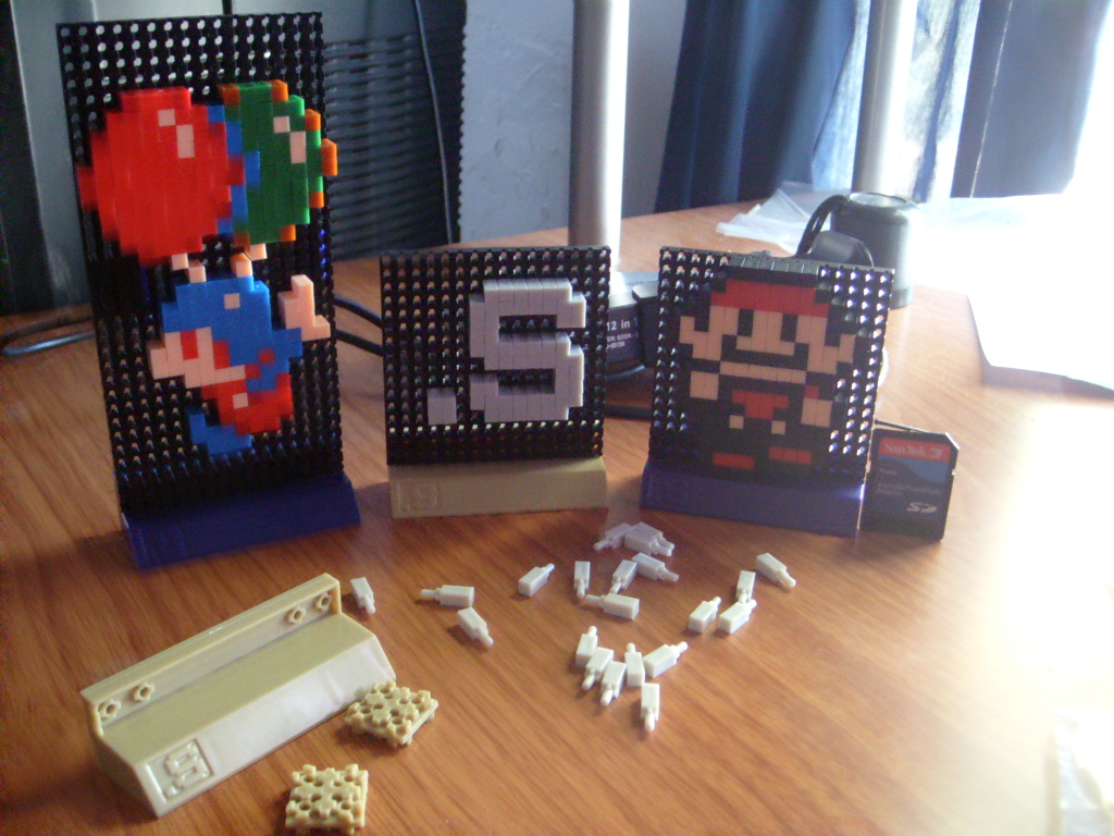 Antoher shot of the Japanese 'Dot-S' toy.